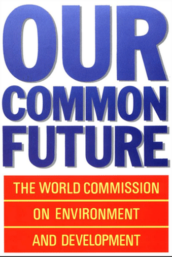 Book Cover